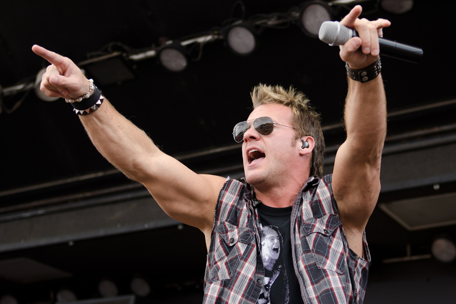 " and link the text to .